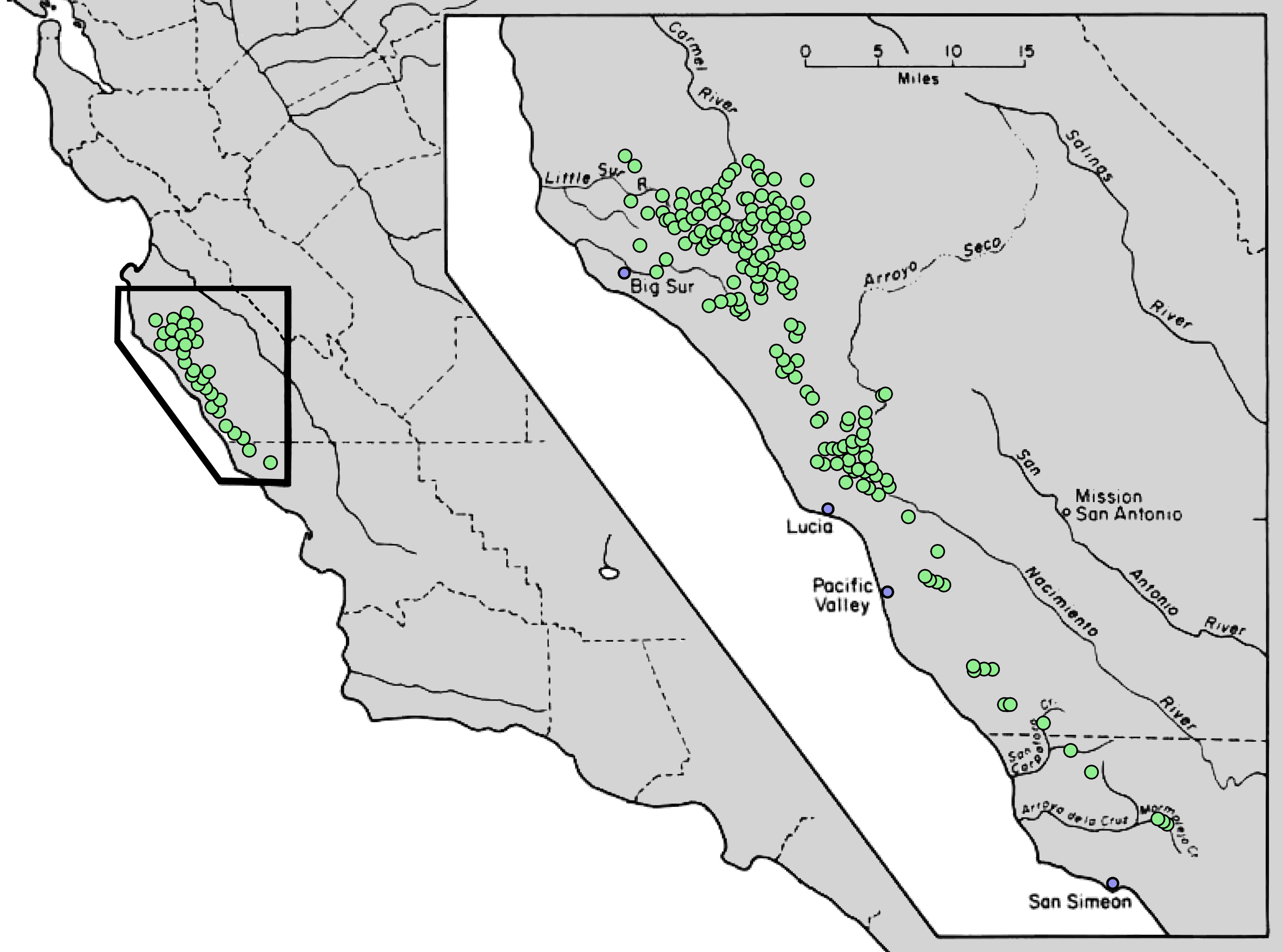 Distribution map for Abies bracteata D.Don -- bristlecone fir or Santa Lucia fir